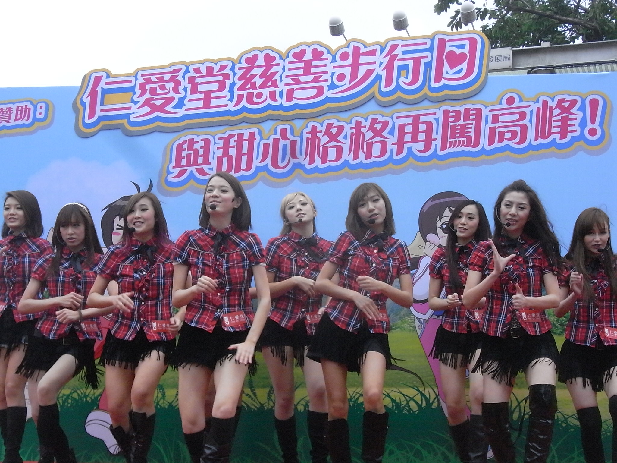 《立通機電冠名贊助：仁愛堂慈善步行日》 仁愛堂, Yan On Tong Charity Walk, Peak Galleria, Peak Road, Hong Kong